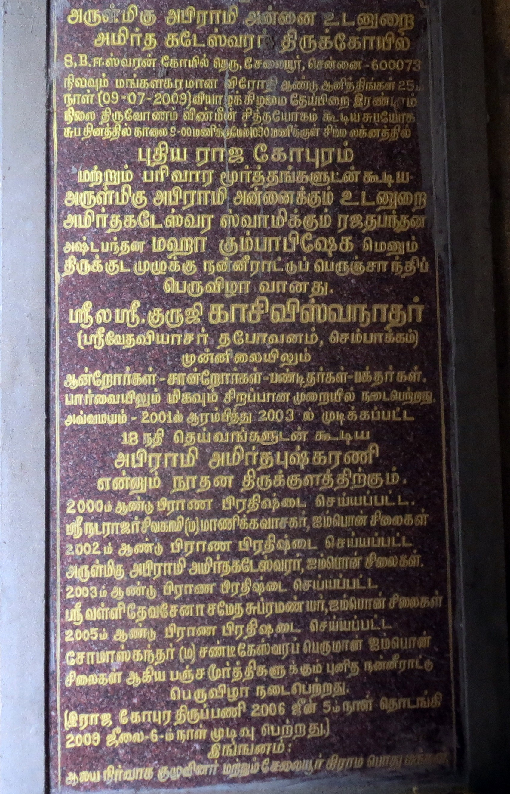 Information Board-Amirthakadeswarar koil at Selaiyur in chennai.